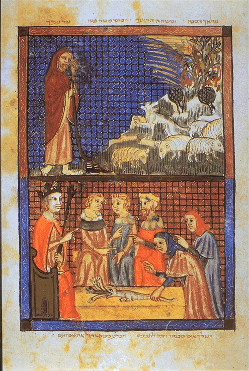 The Sarejevo Hagadah, 15th century Spain